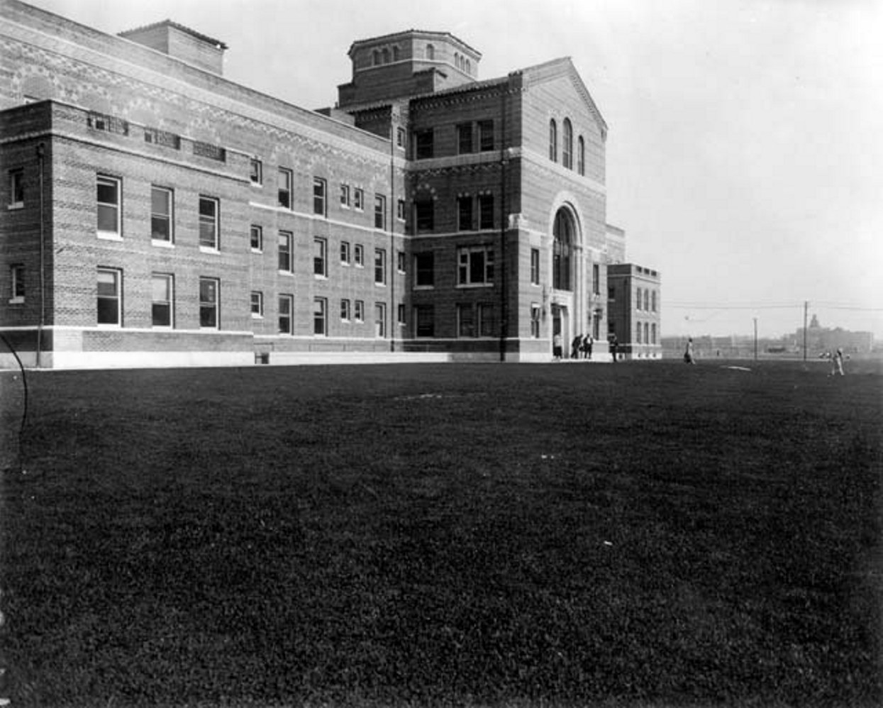 [National] Jewish Hospital, Colo. Blvd. and Colfax taken between 1920 and 1940(?) It is likely that this photograph was first published without a copyright notice, as was usual for photographs at the time (and no copyright notice is visible on the source). If so, this image was never copyrighted. If it was copyrighted, the copyright was never renewed, as an exhaustive search here reveals.